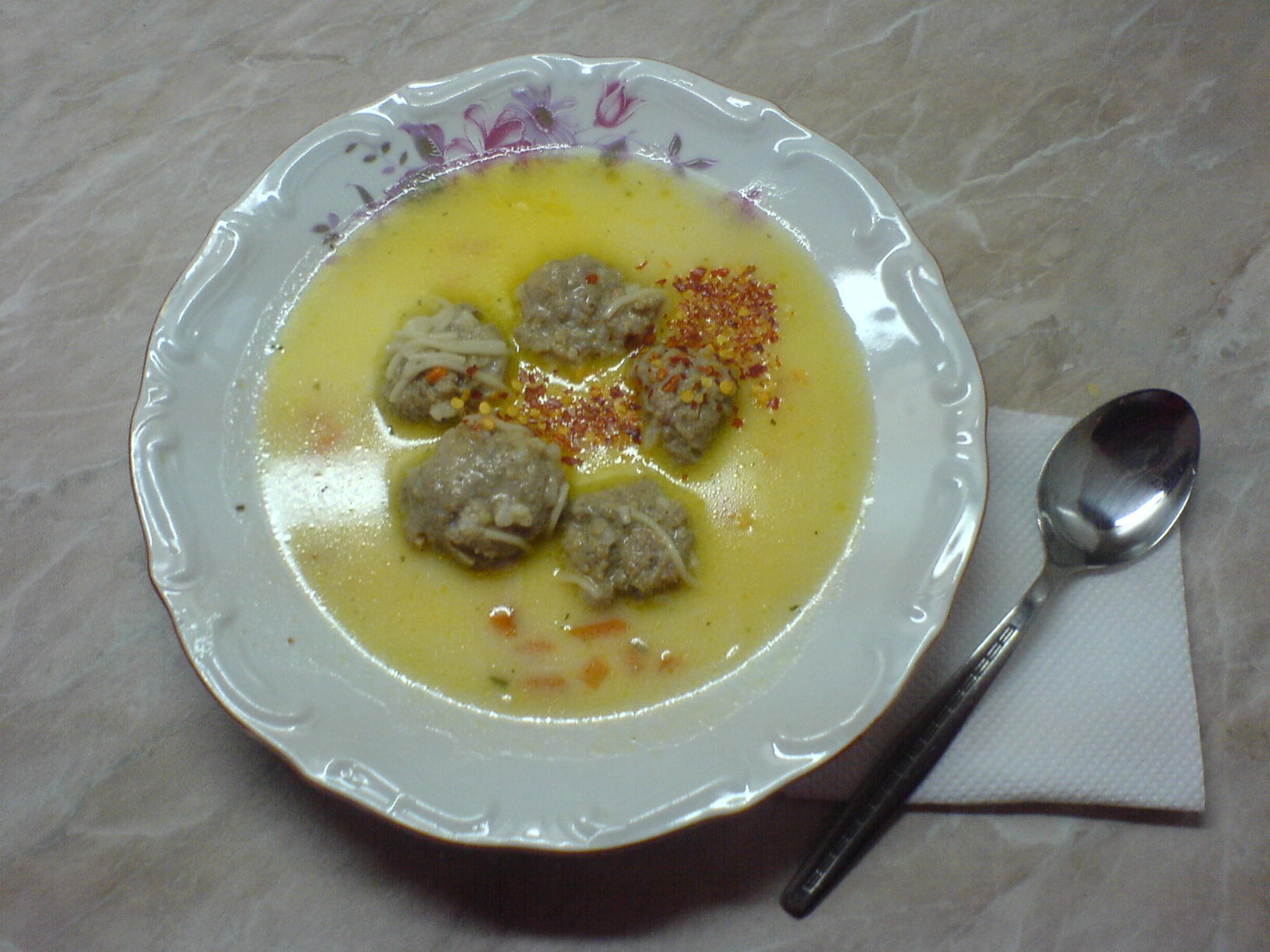 Meat ball soup